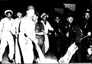 This is a picture of a historical event in Puerto Rico "The gunfight at Saloon Boricua" where Vidal Santiago Diaz is carried out by the police